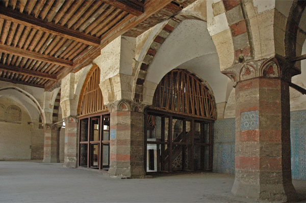 Aqsunqur Mosque, or Blue Mosque. Egypt